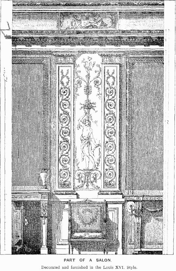 Illustration from Illustrated History of Furniture, From the Earliest to the Present Time from 1893 by Litchfield, Frederick, (1850-1930)